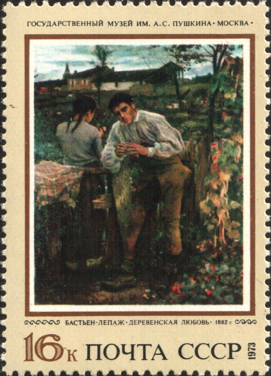 USSR stamp